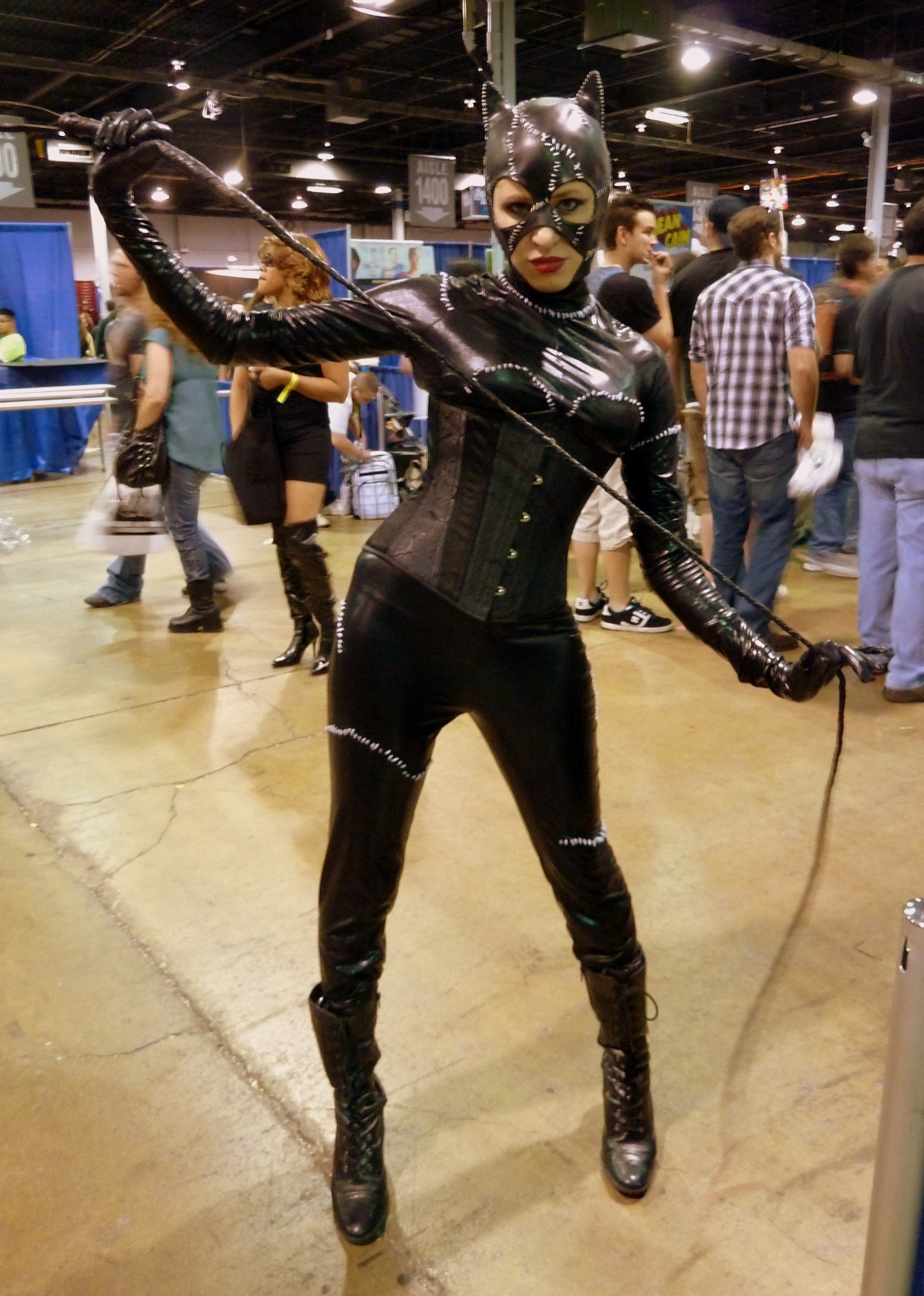 Catwoman